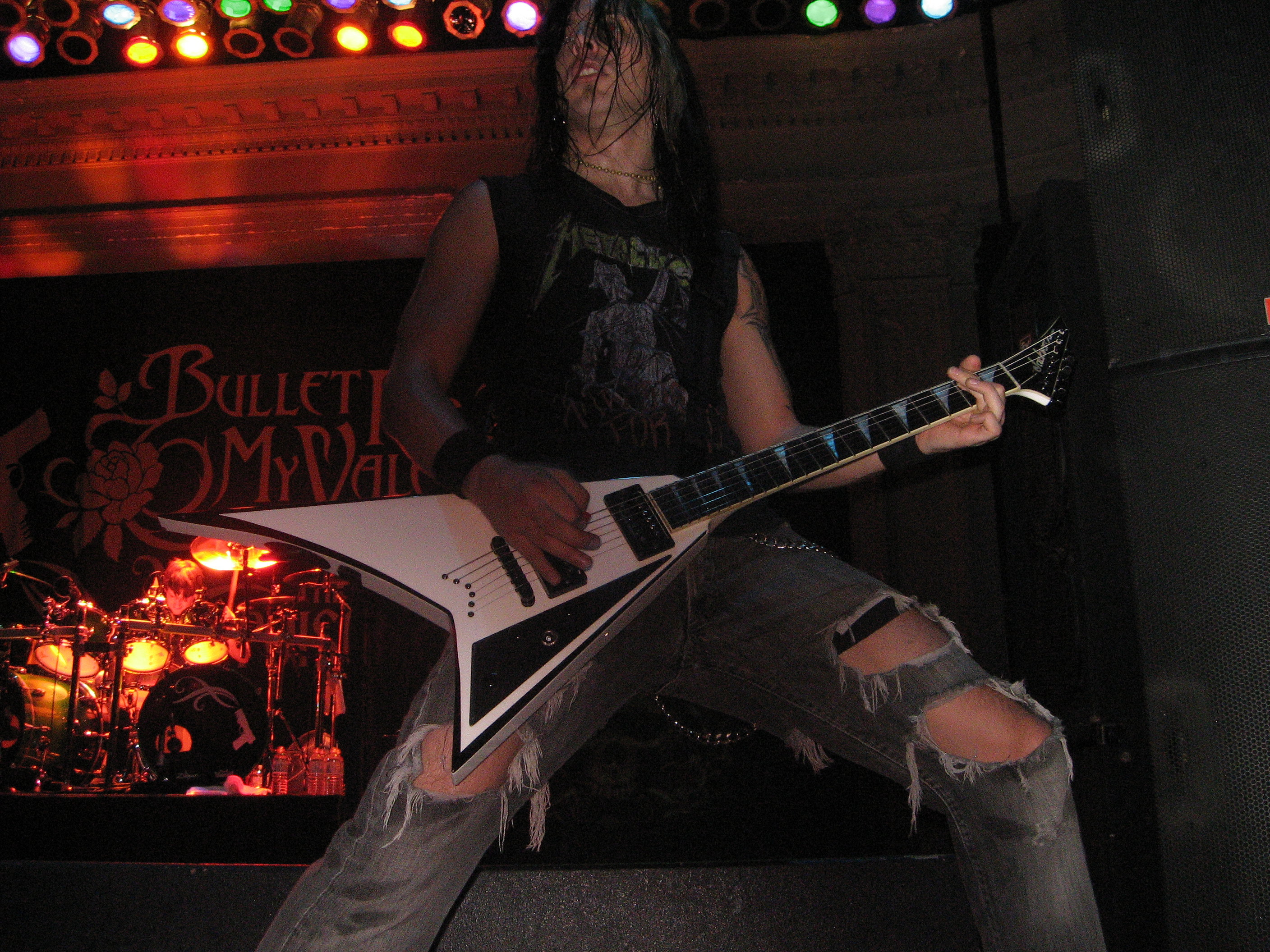 Bullet For My Valentine vocalist/guitarist Matt Tuck live in Columbus